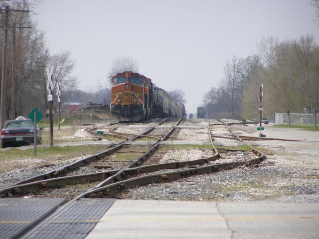 Monon Line in Monon from northwest